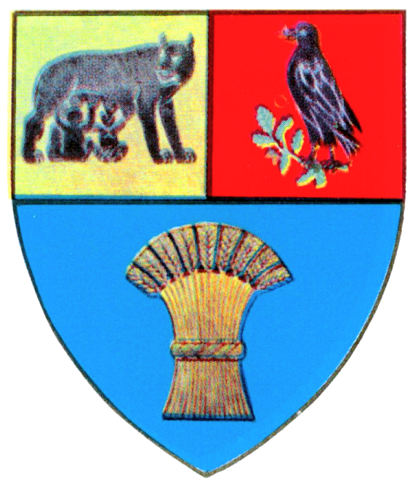 Interwar coat of arms of Cluj County, Kingdom of Romania.